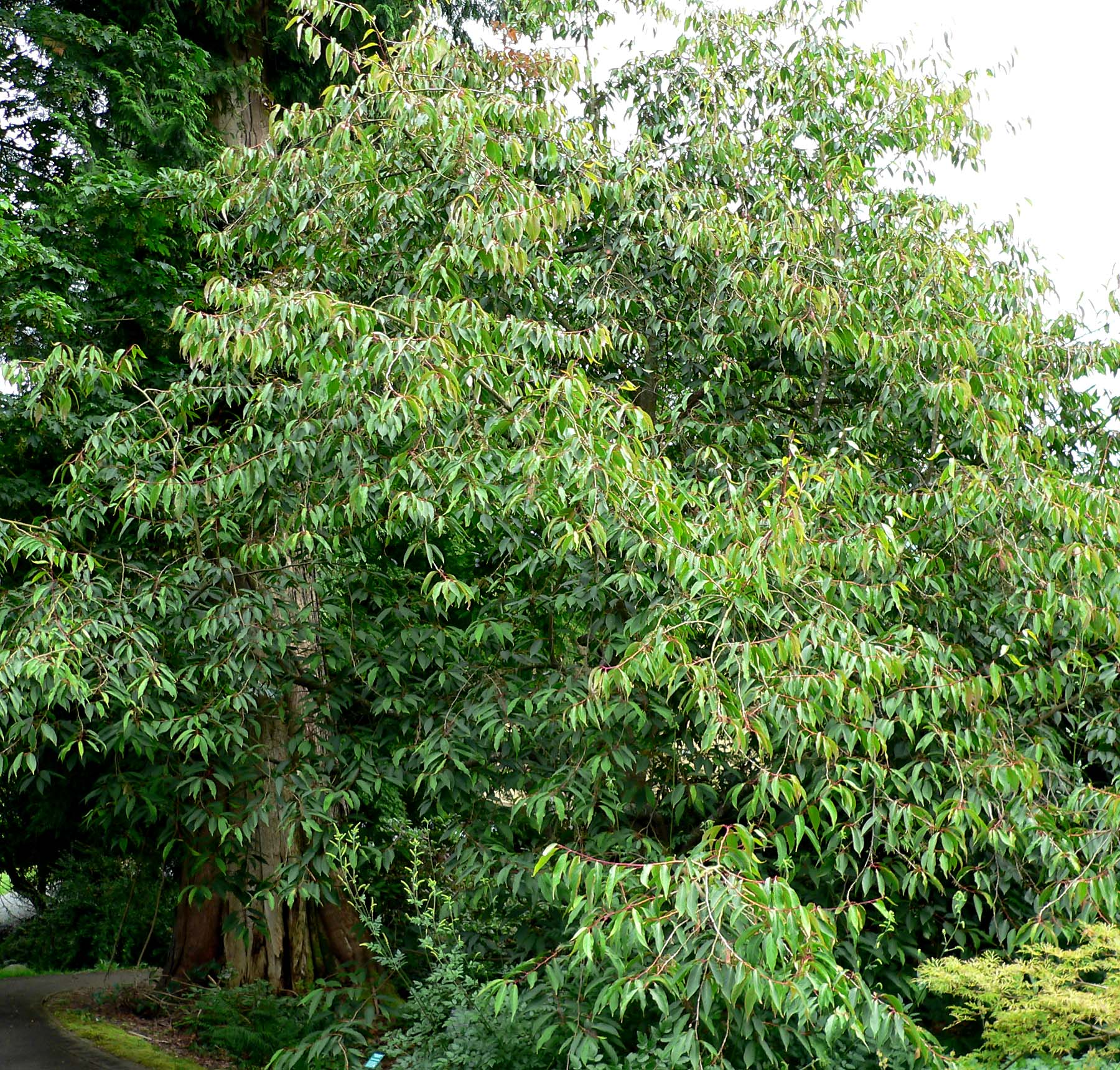 Photo of Rehderodendron macrocarpum at the UBC Botanical Garden in Vancouver